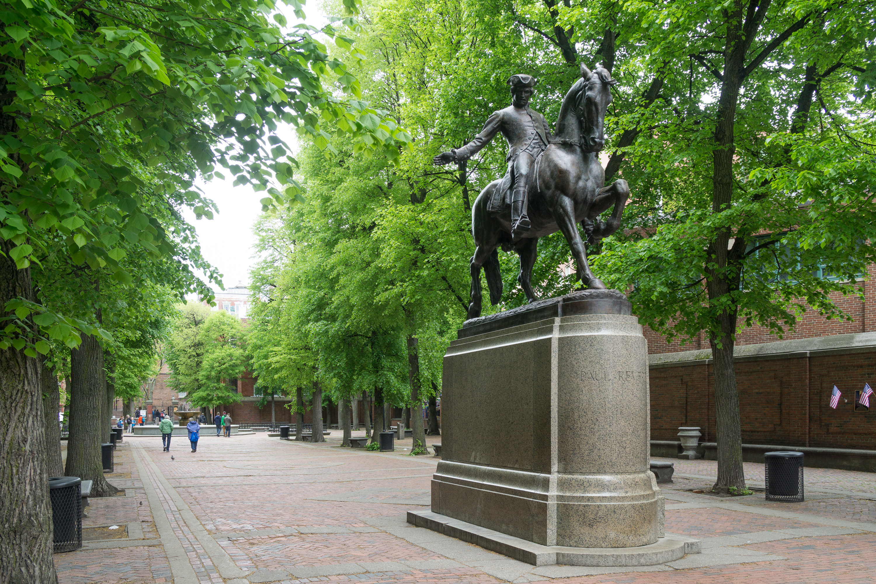 Paul Revere bronze statue by Cyrus Edwin Dallin, Boston